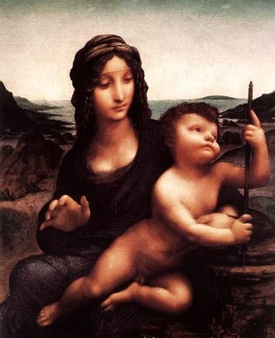 Madonna with spindle